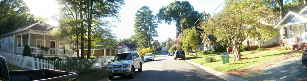 North Charlotte's Neighborhood in Mecklenburg Mill Village Houses